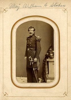 Photo of Major William A Stokes from a Civil-War era photo album belonging to General Richard Coulter (1827-1908) of Greensburg